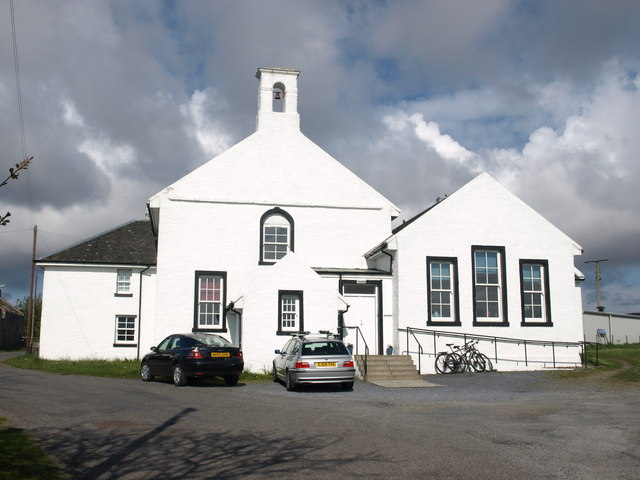 The Old School, Port Charlotte